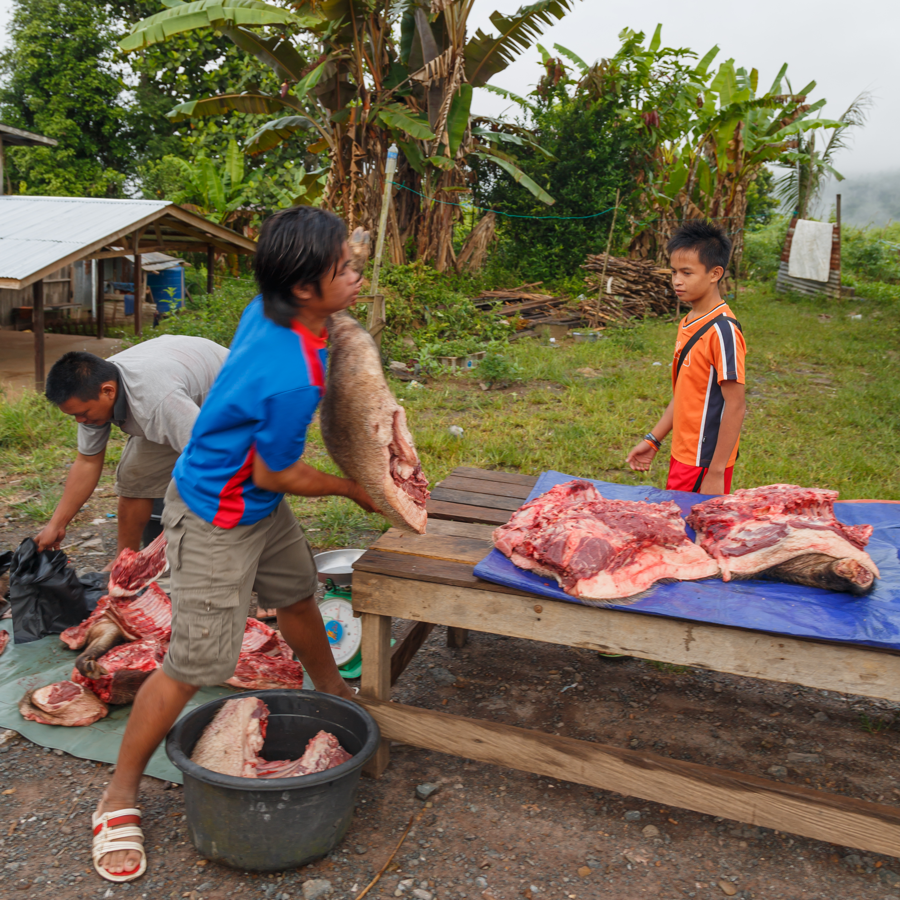 Sapulut, Sabah: A man and his sons are selling the meat of a wild pig at the weekly tamu.